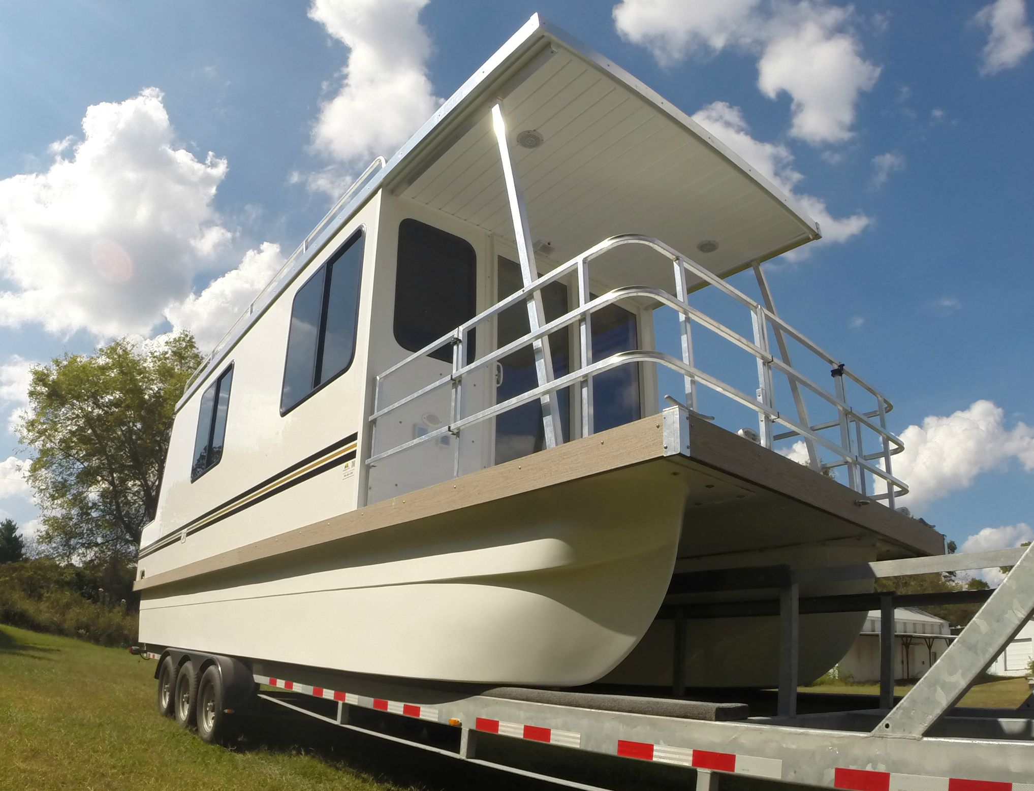 Catamaran Cruisers Lil' Hobo Houseboat on Trailer